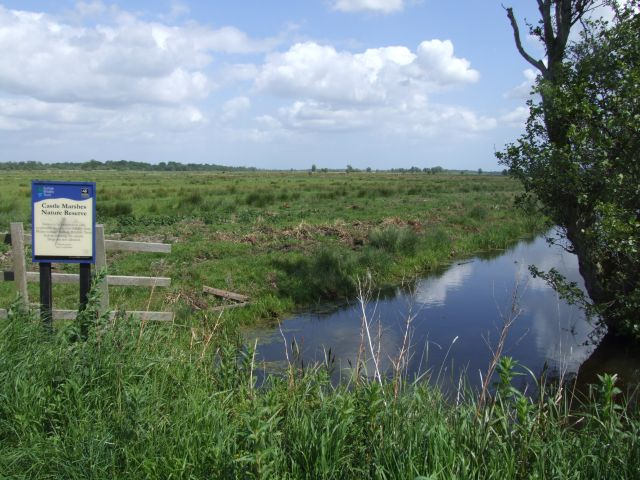 View across Castle Marshes nature reserve from Six Mile Corner.